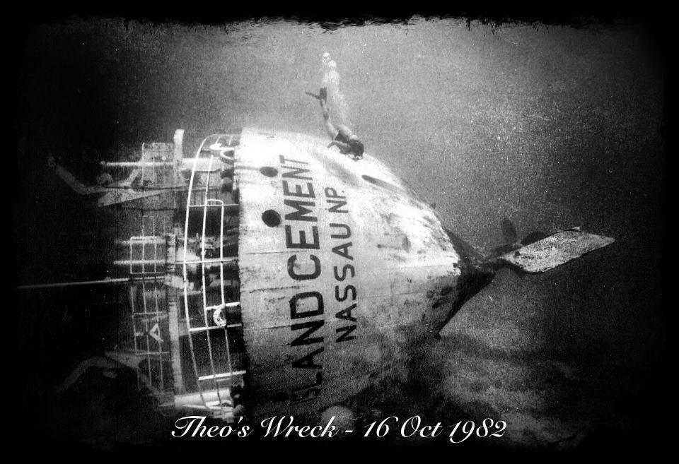 The Day after the sinking